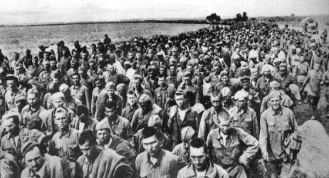 Under free licence in Glantz' book. Слика:Kharkov2.jpg